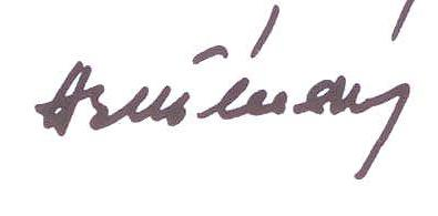 Signature of Rudolf Hrušínský.